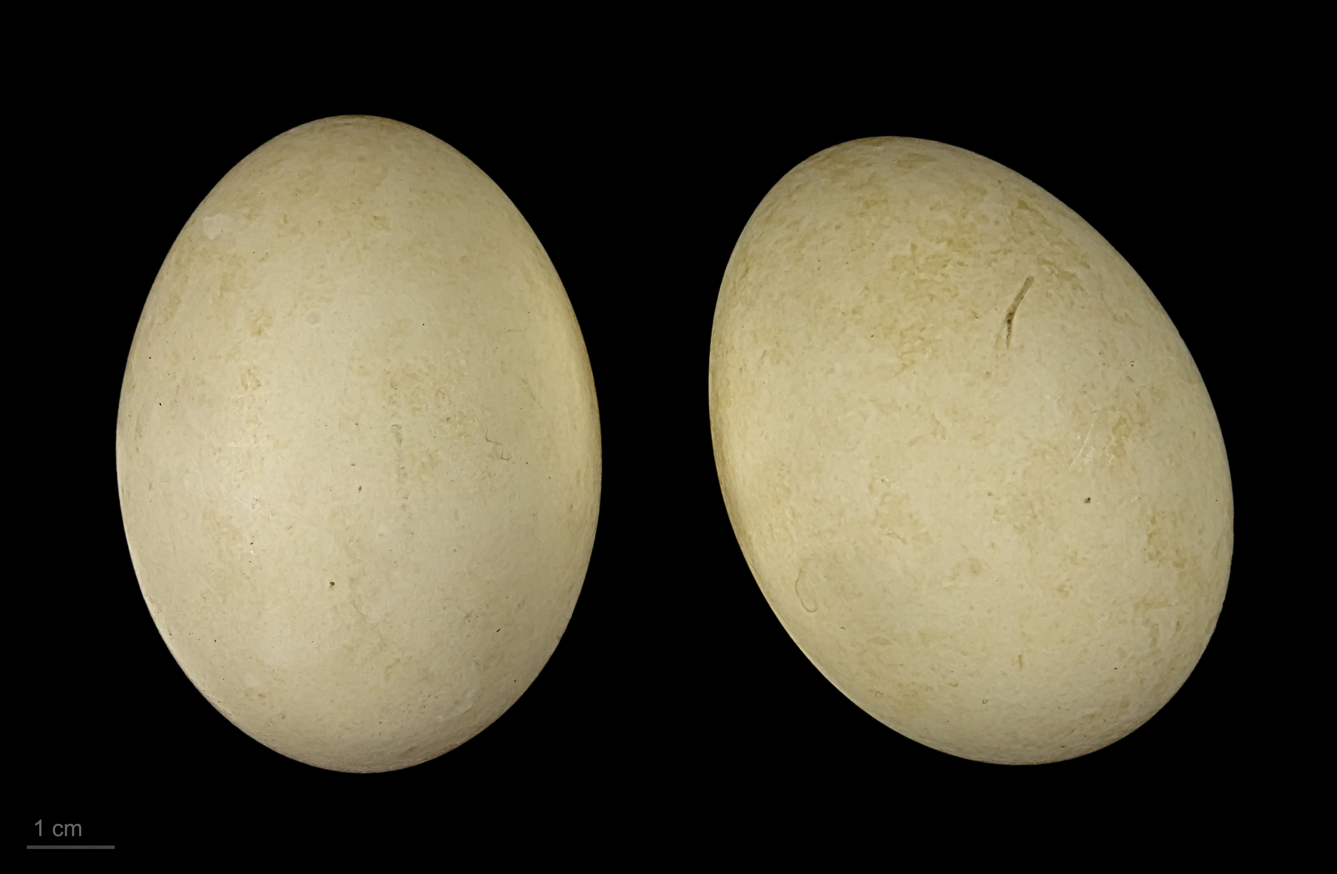 Eggs of common merganser Two specimens of the same spawn ; collection of Jacques Perrin de Brichambaut.